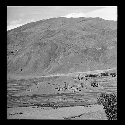 Burial mound of King Srongtsan gampo